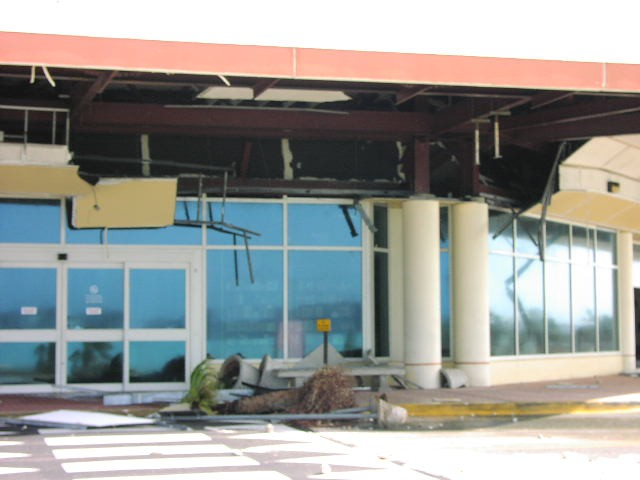 Bermuda International Airport, damage from Hurricane Fabian